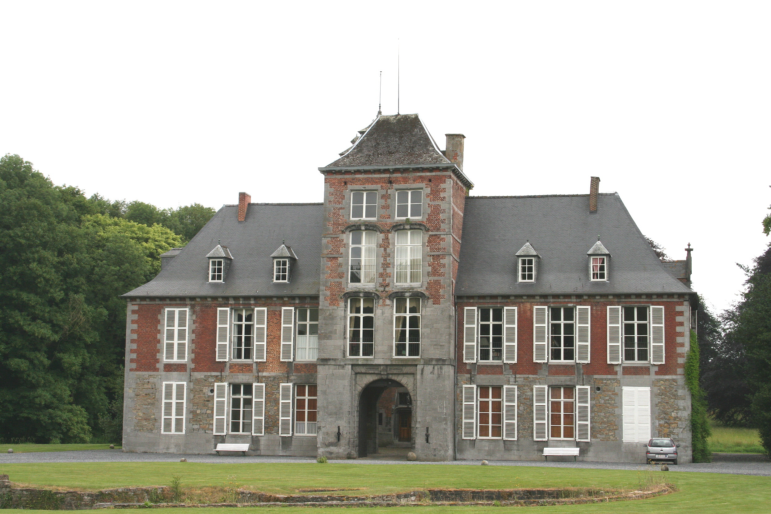 Ecaussinnes-d’Enghien (Belgium), the « la Follie » castle (XVIth century).